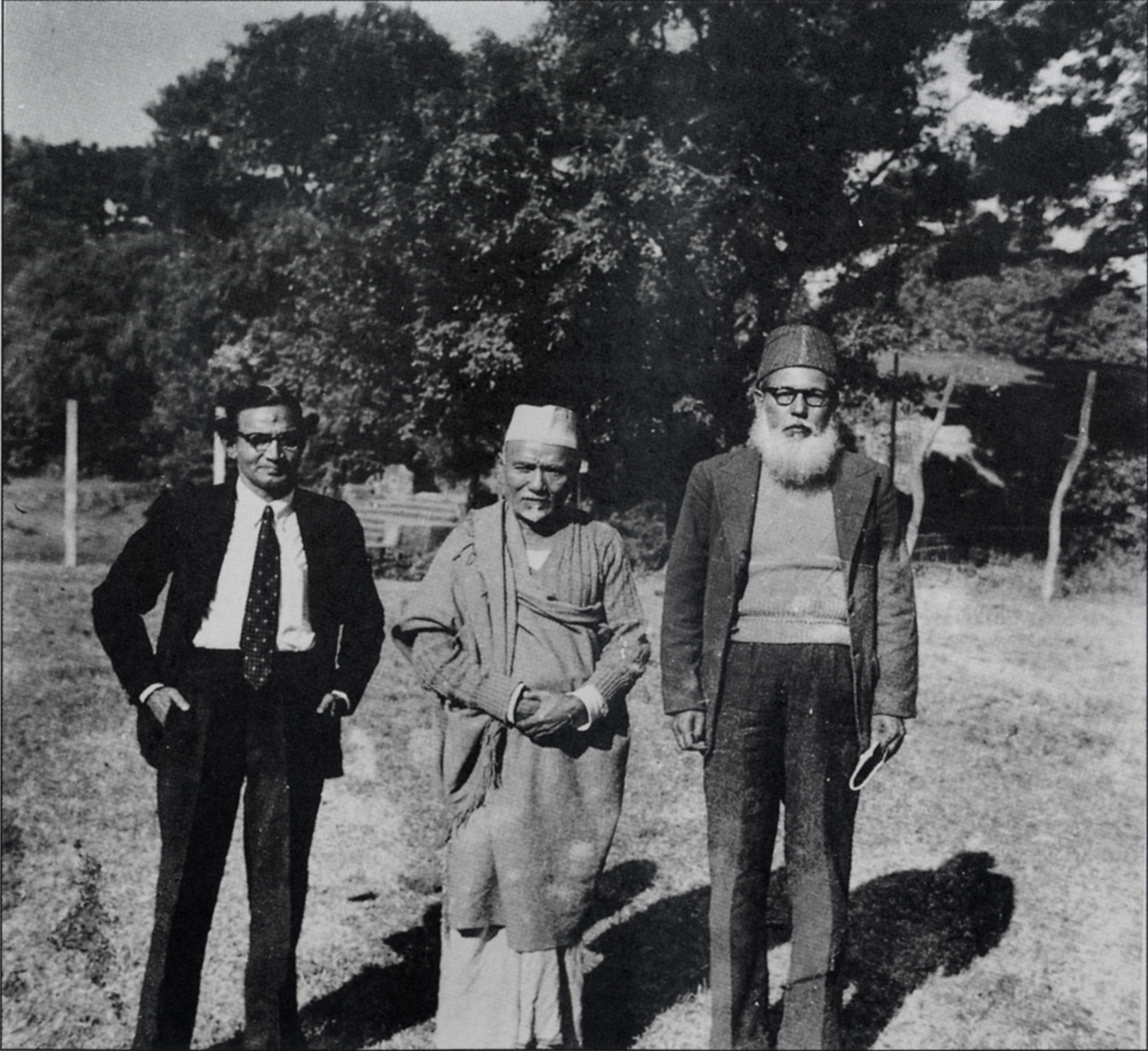 Abbasuddin, Ustad Alauddin Khan and Qazi Motahar Hossain in front of the Bordhoman house in winter 1955.